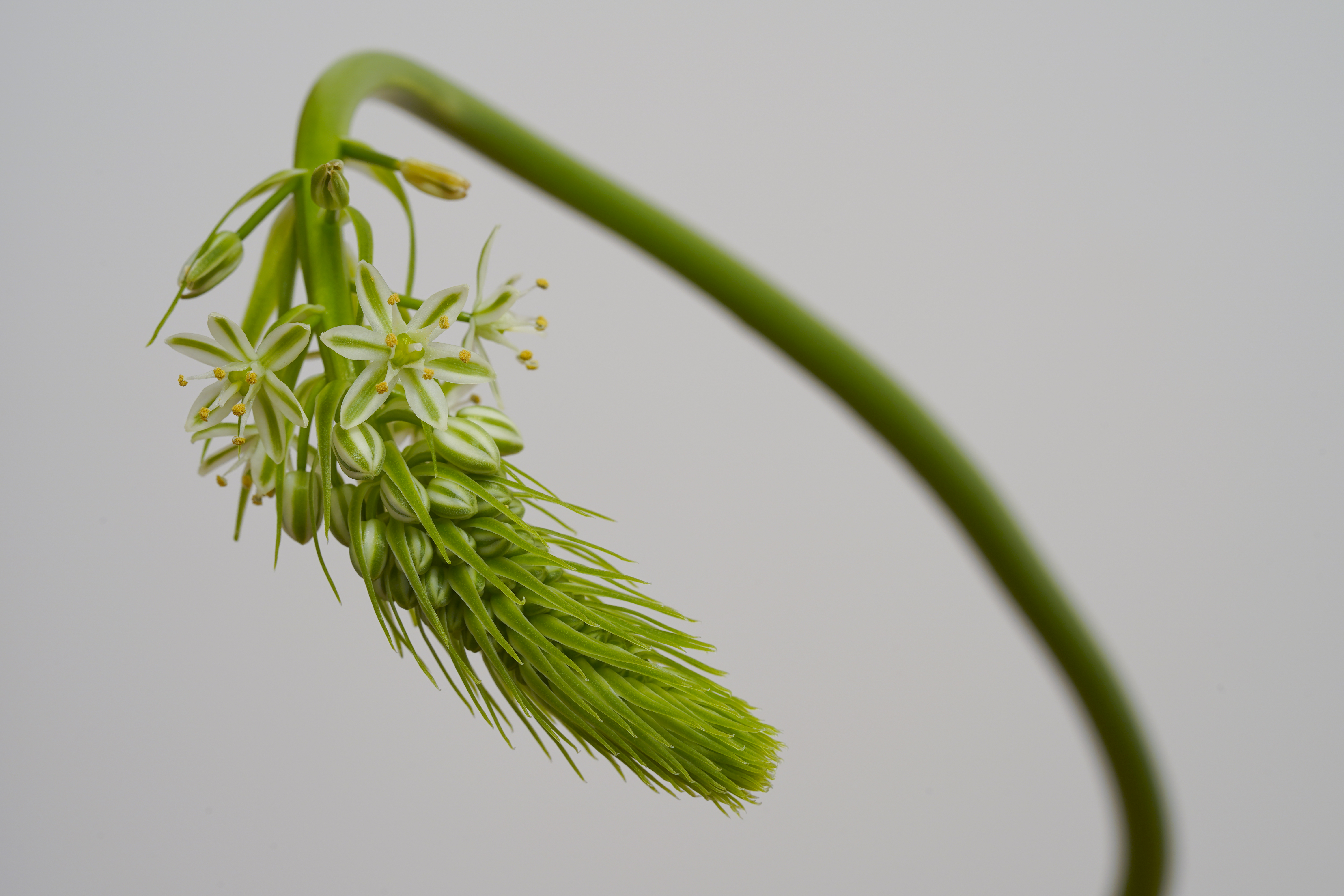 Albuca bracteata flower